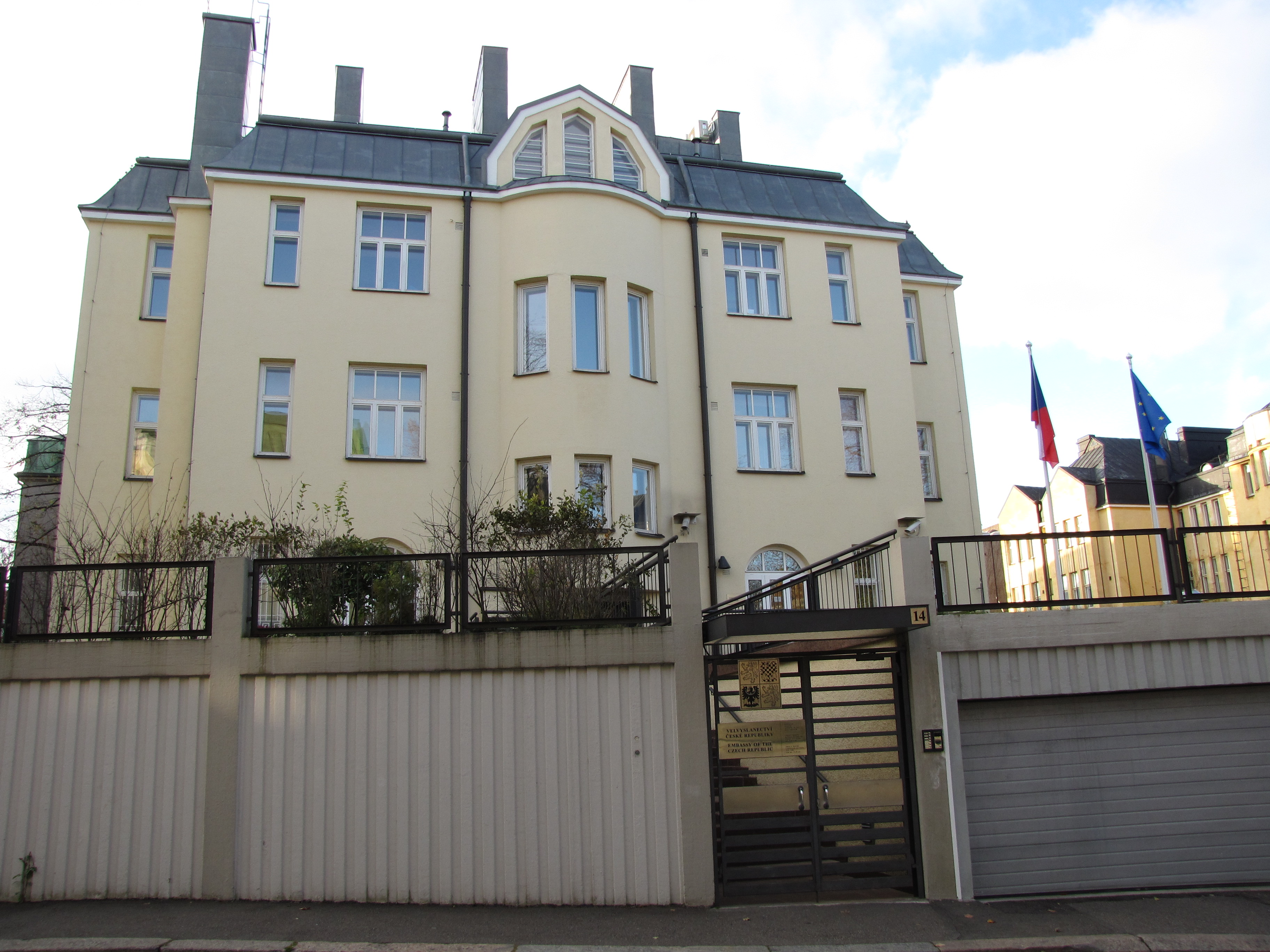 Czech Republic embassy in Helsinki. Address Armfeltintie 14, Eira.